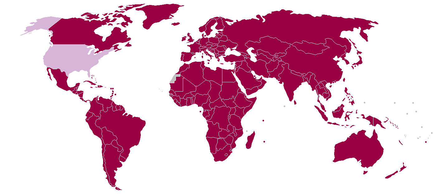 Worldwide laws regarding killing horses for consumption Horse killing is legal Horse killing is illegal Unknown